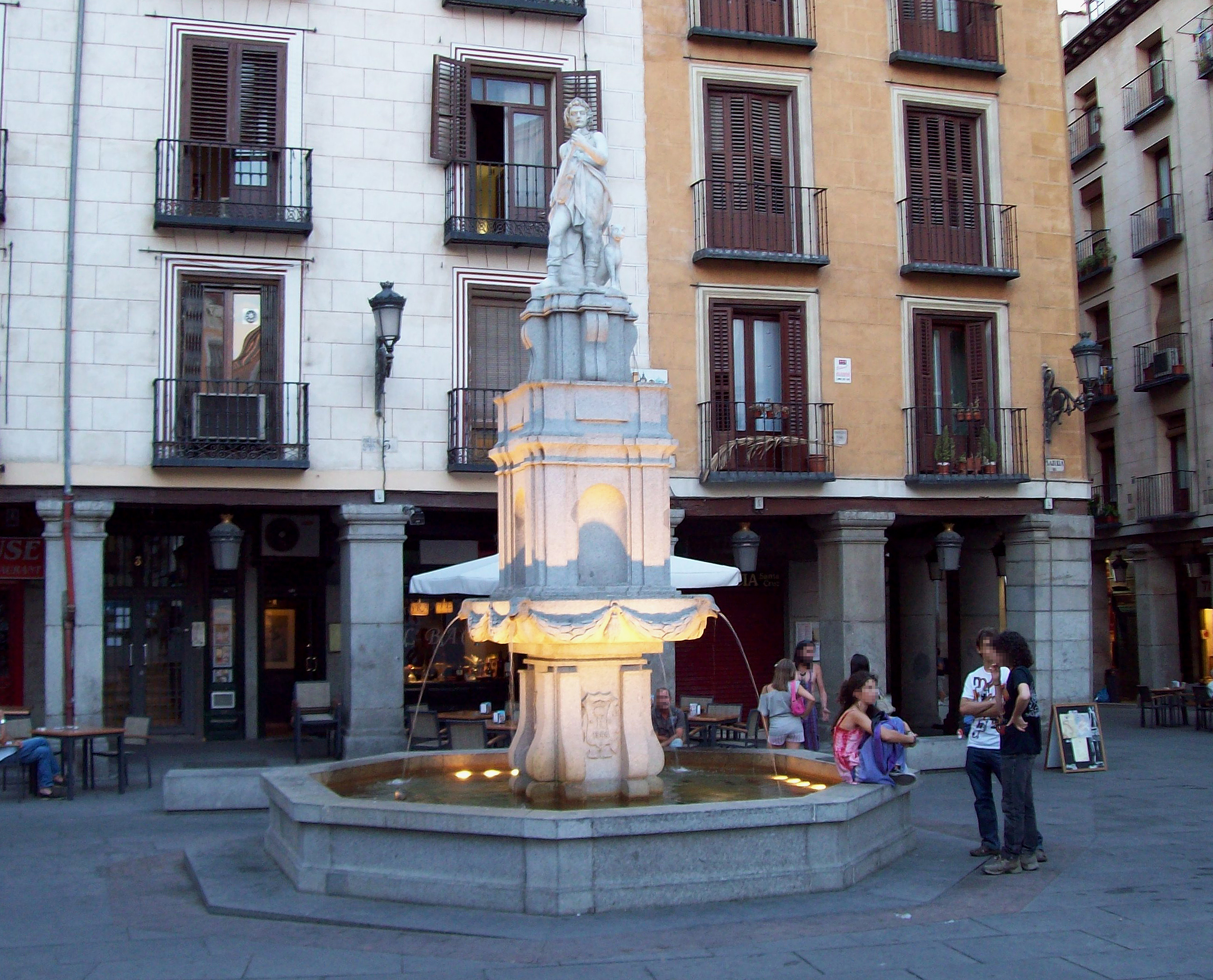 Fountain of Orpheus at Plaza de la Provincia (square) in Madrid (Spain).